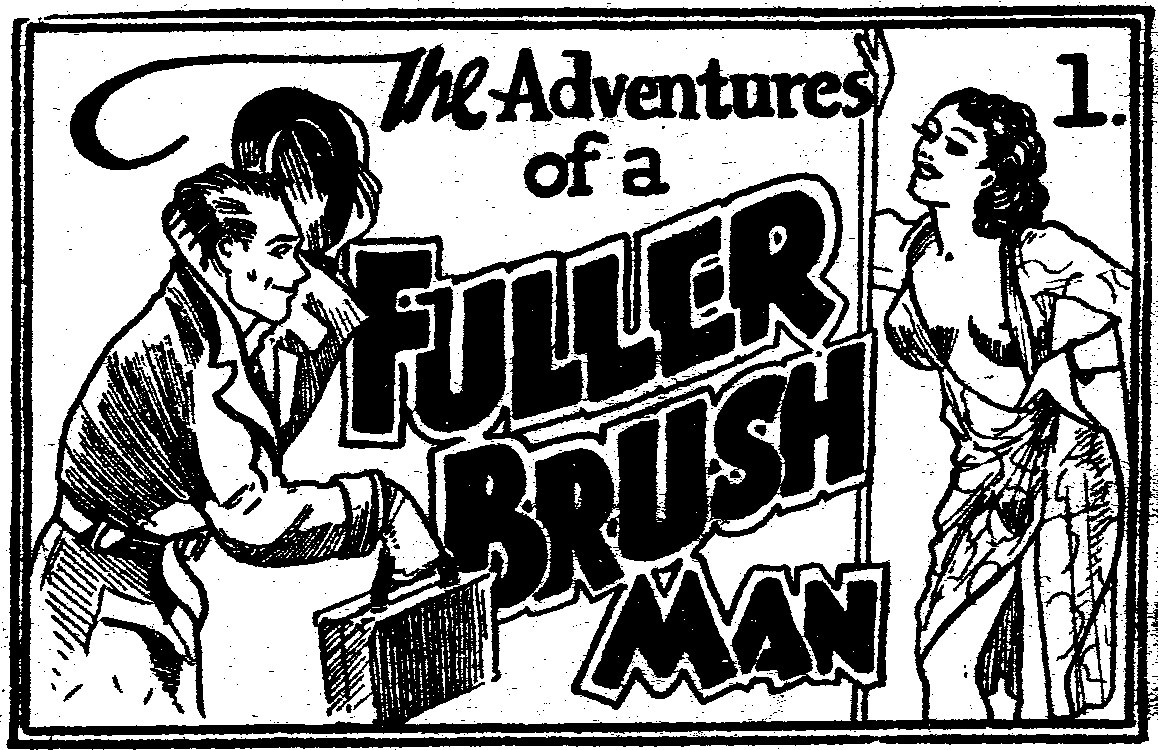 Cover of a ca. 1936 Tijuana bible: "The Adventures of a Fuller Brush Man" (non-offensive)